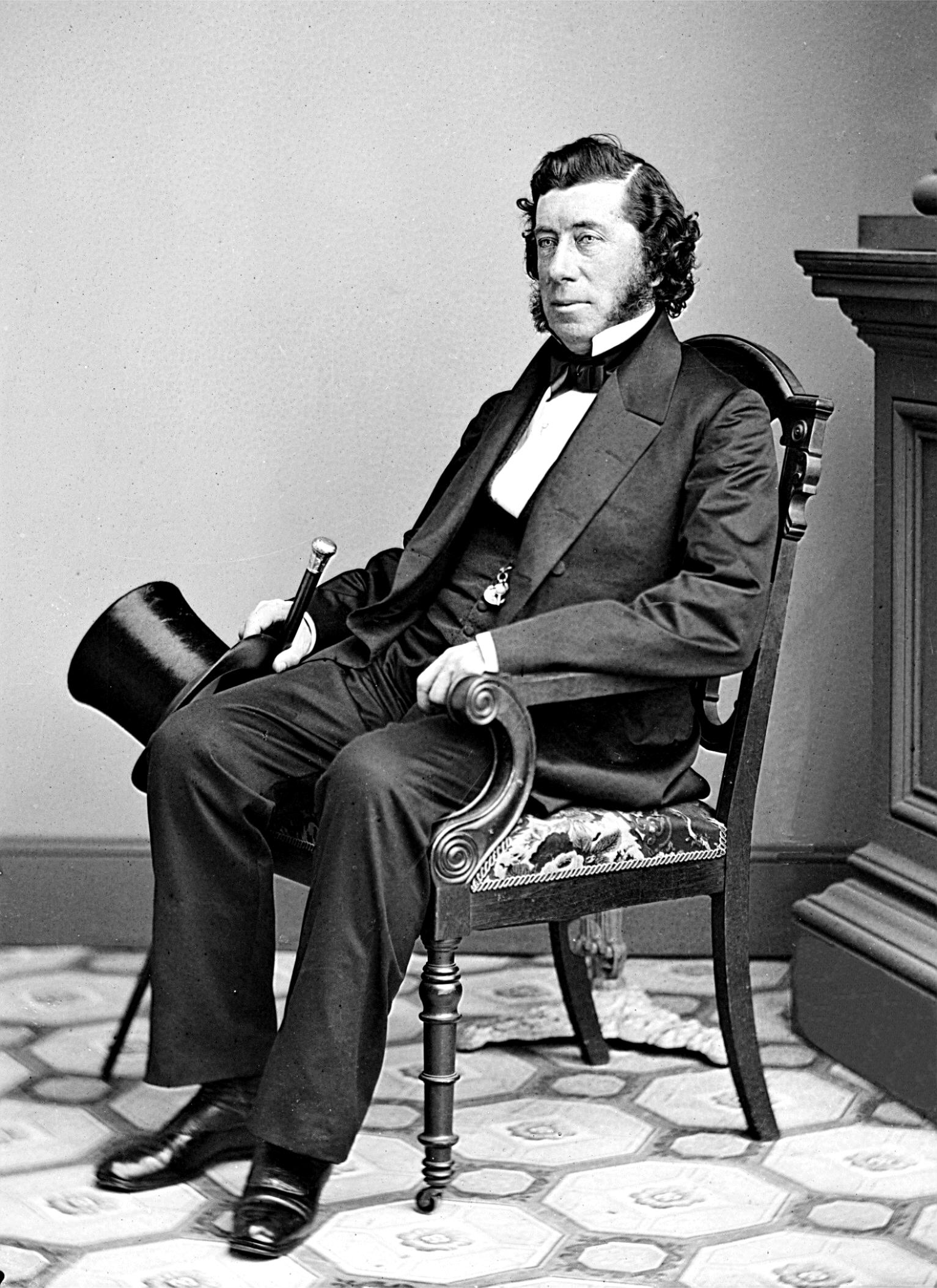 U.S. Senator Hamilton Fish